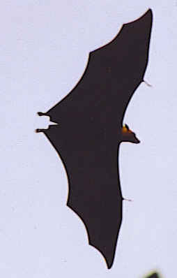 Megabat in flight Pteropodidae